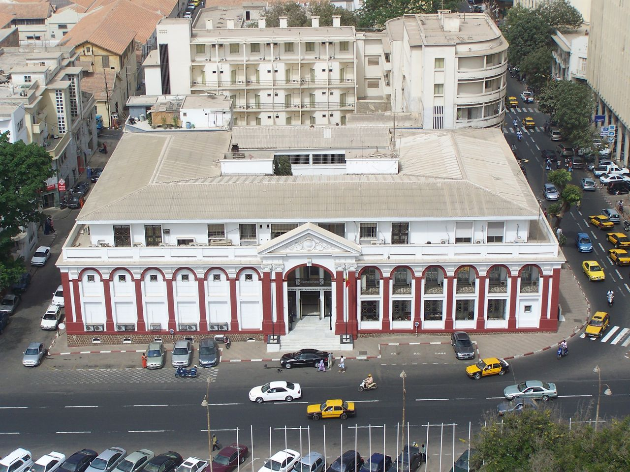 Ministere des affaires etrangere ( senegal )